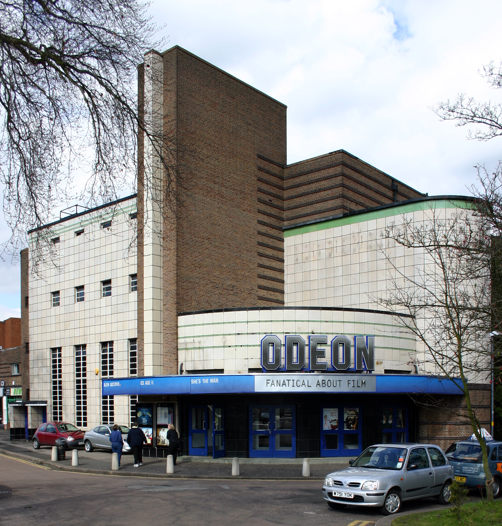 Odeon Cinema, Birmingham Road, Sutton Coldfield, West Midlands.